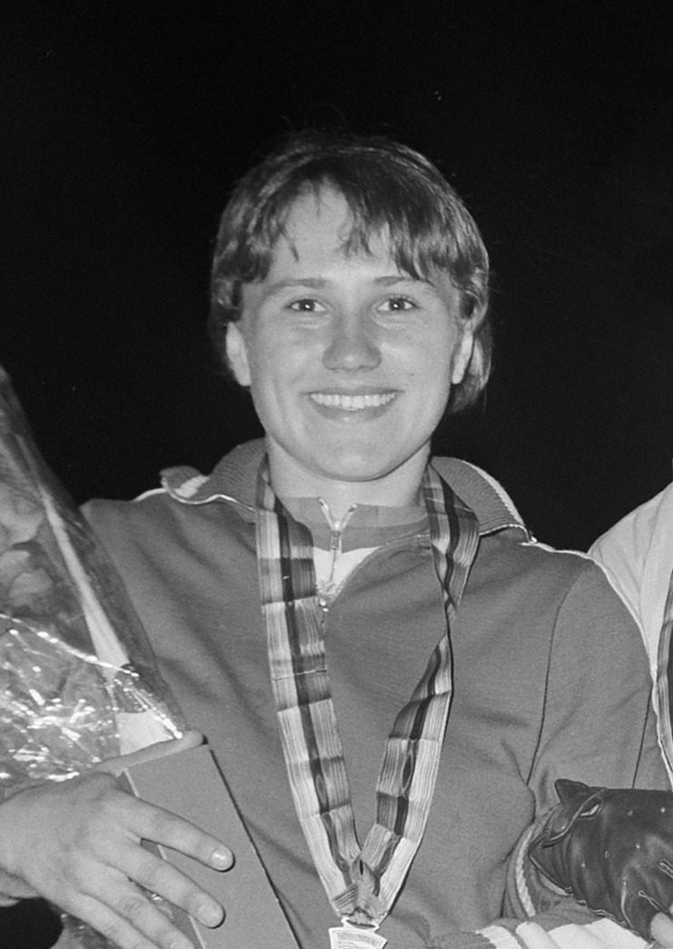 WK Wielrennen.. Obodovskaja (2e, Rusland)